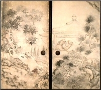 Part of the shihon chakushoku sansui jinbutsuzu (紙本著色山水人物図), ten paintings on fusuma, color on paper located at Henjōkō-in, Mt. Kōya, Wakayama, Japan. The paintings have been designated as National Treasure of Japan in the category paintings.